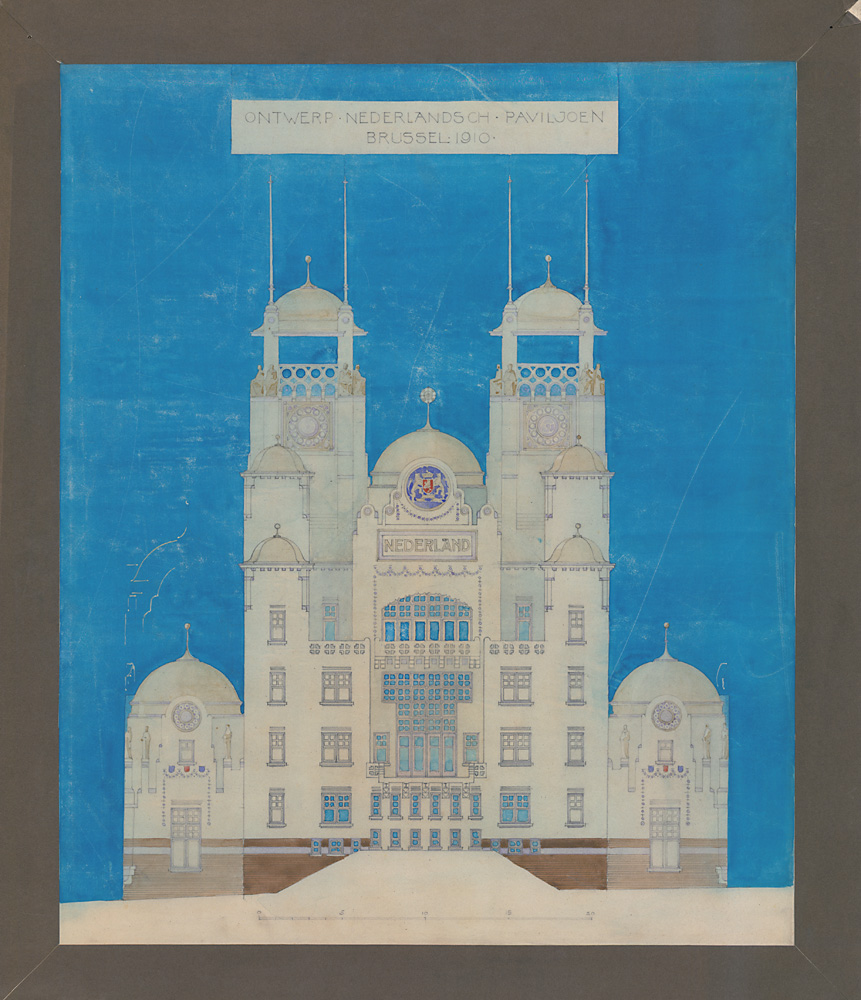 W. Kromhout. Nederlands Paviljoen voor de Wereldtentoonstelling te Brussel, 1908-1910. Collectie NAi, KROM 44